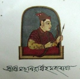 Page from an old Assamese manuscript Hastividyarnava or a treatise on elephants